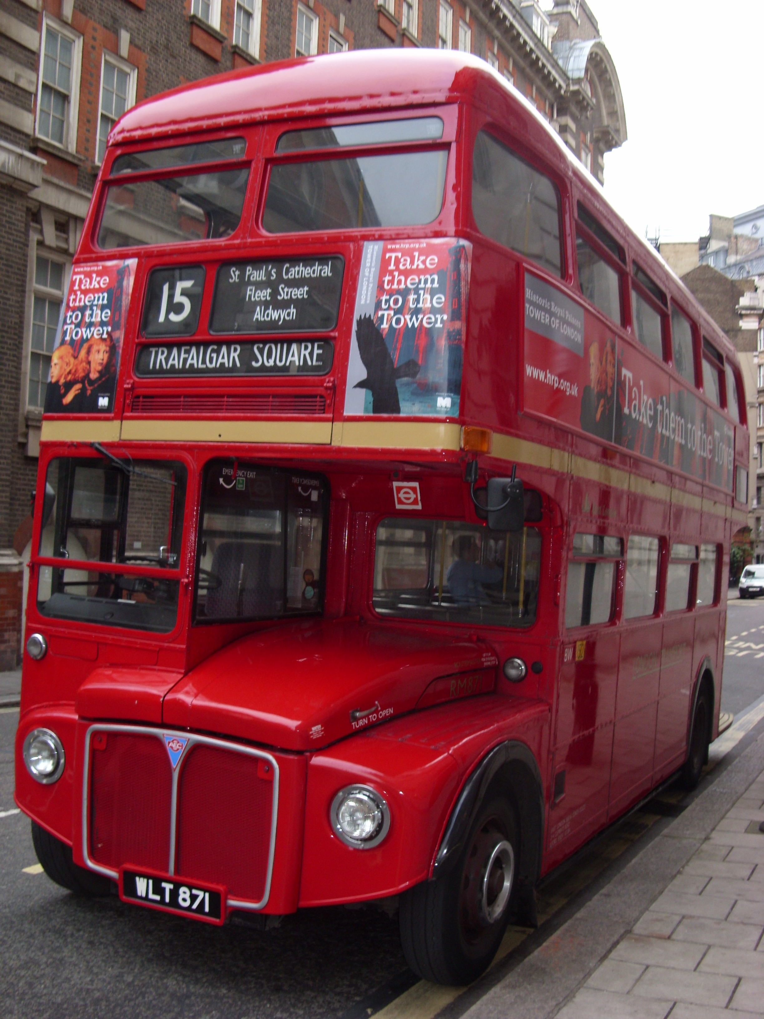 East London Routemaster bus RM871 (reg. WLT 871), pictured operating London Buses heritage route 15, standing out of service in an unknown location, but with route blinds set for Trafalgar Square.